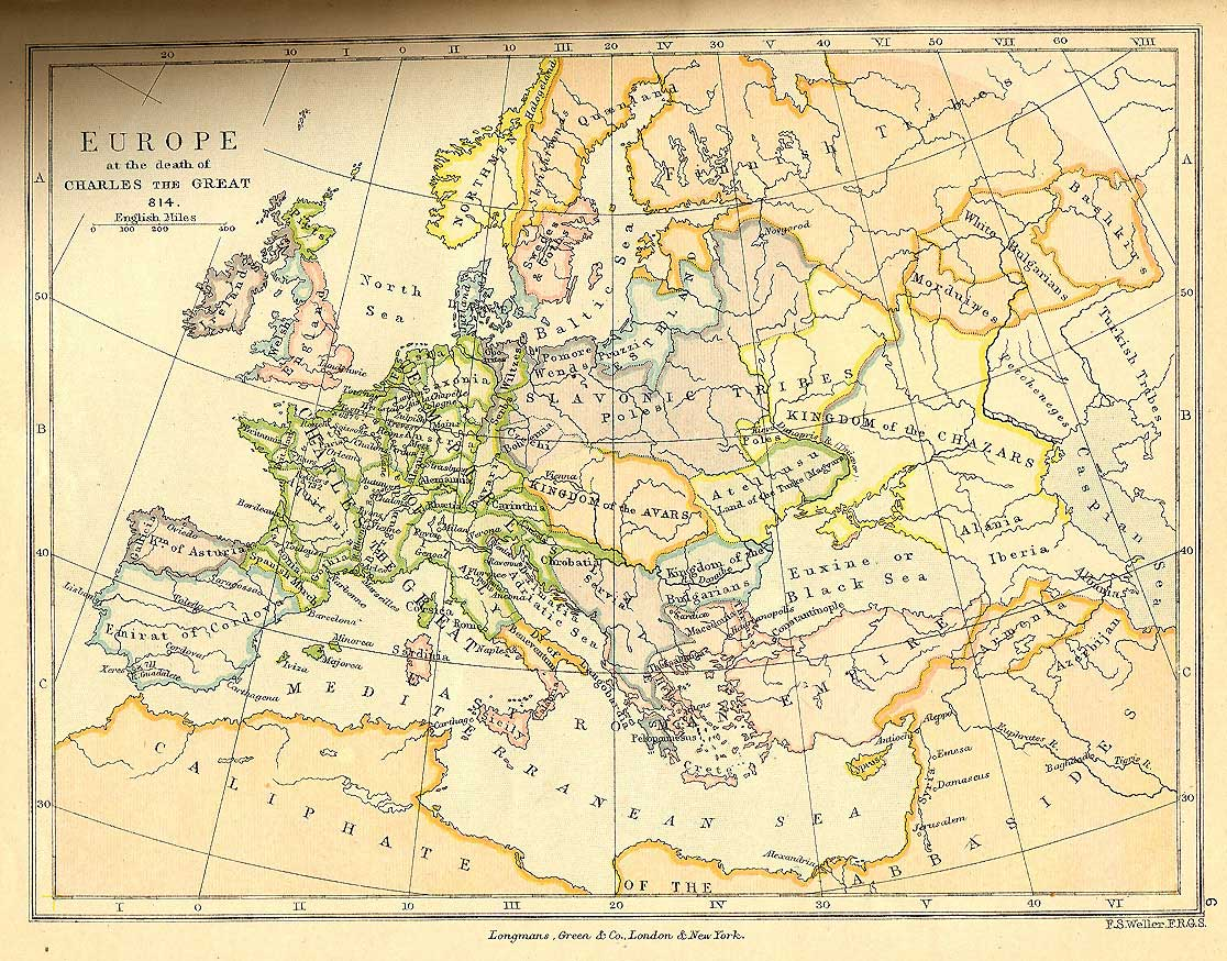 EUROPE at the death of Charlemagne in 814